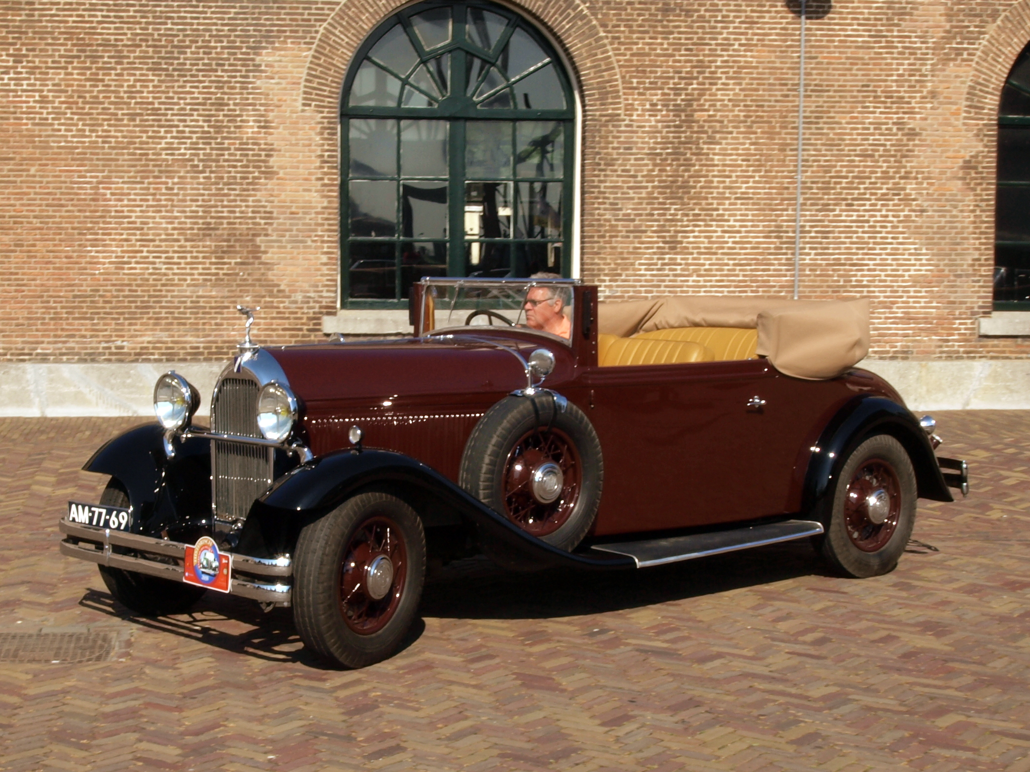 Photographed at Den Helder, The Netherlands. OLYMPUS DIGITAL CAMERA